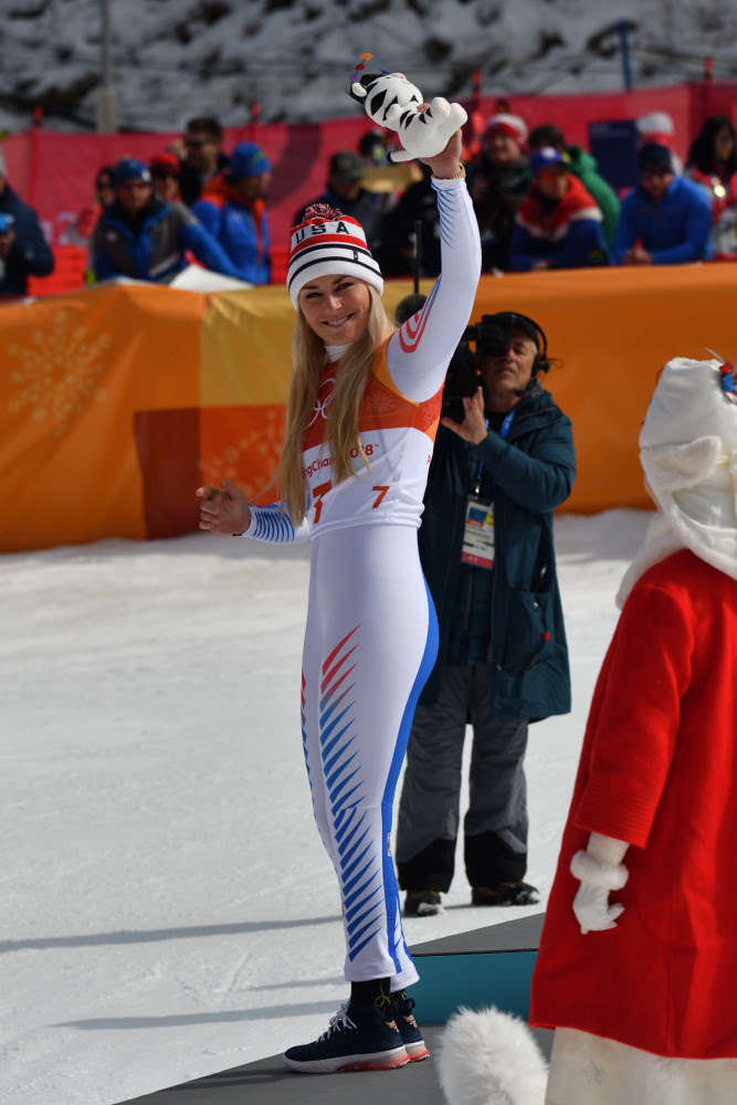 Lindsey Vonn at the PyeongChang 2018 Olympics